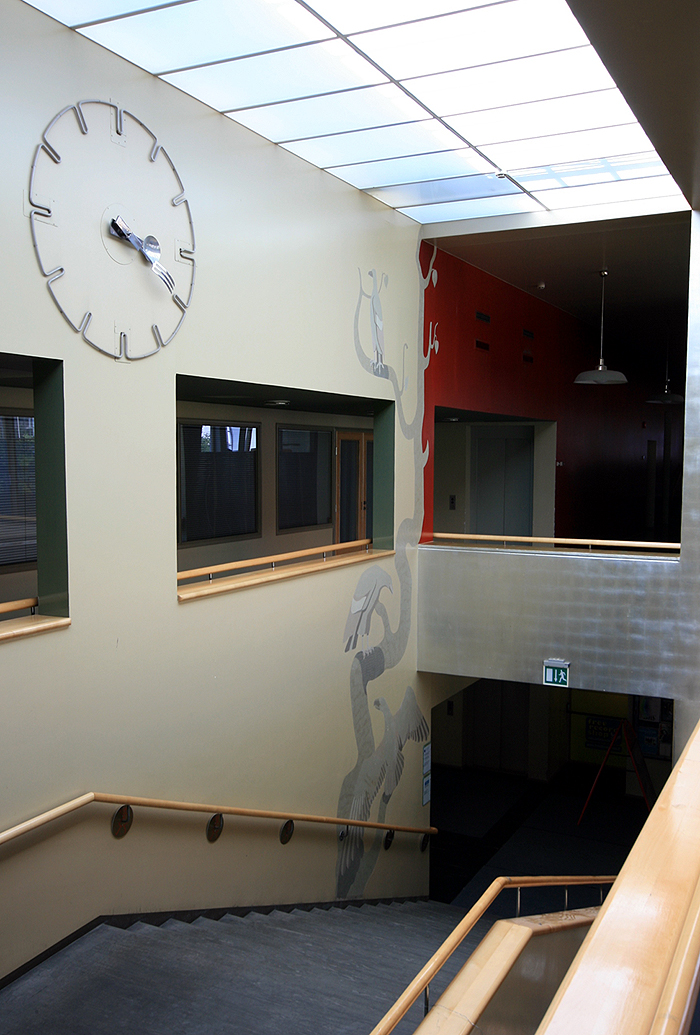 Lasipalatsi (The Glass Palace), Helsinki. Built 1936. Architects: Viljo Revell, Niilo Kokko and Heimo Riihimäki.